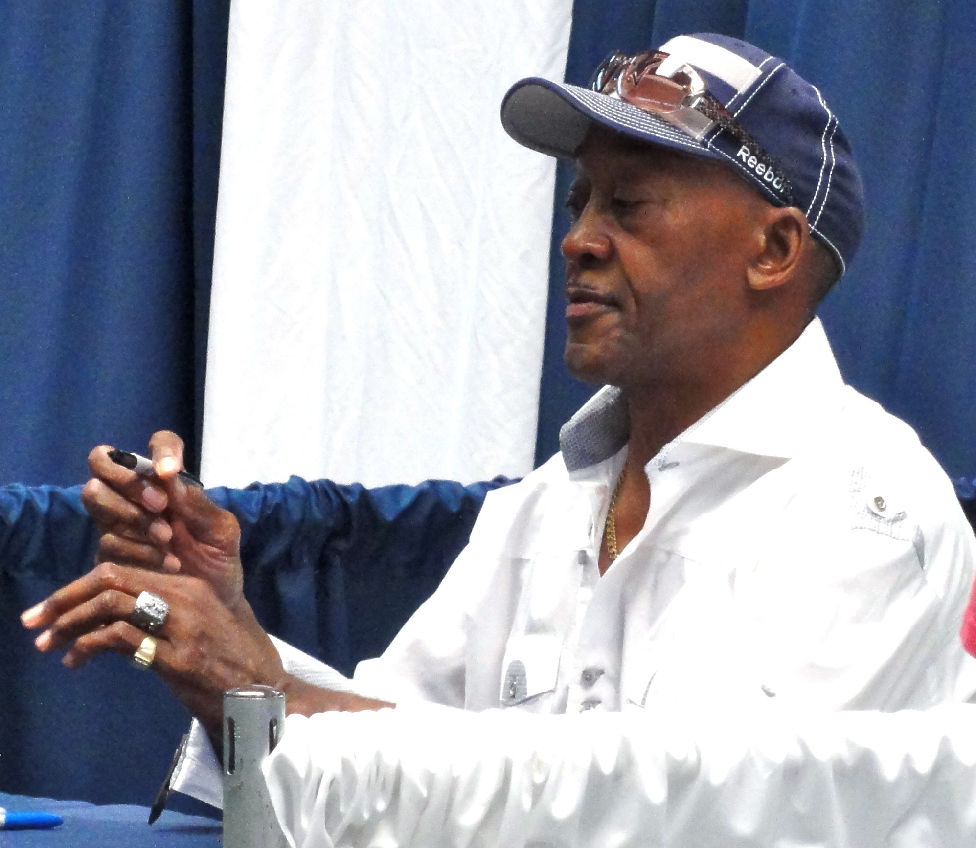 Former Dallas Cowboys running back Preston Pearson signing autographs at Cowboys Stadium, 2012.